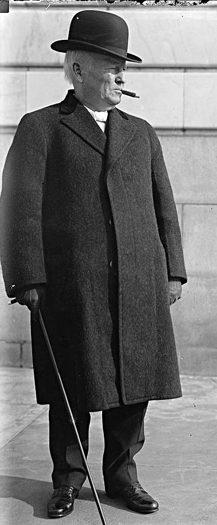 Rienzi Melville Johnston, US Senator from Texas